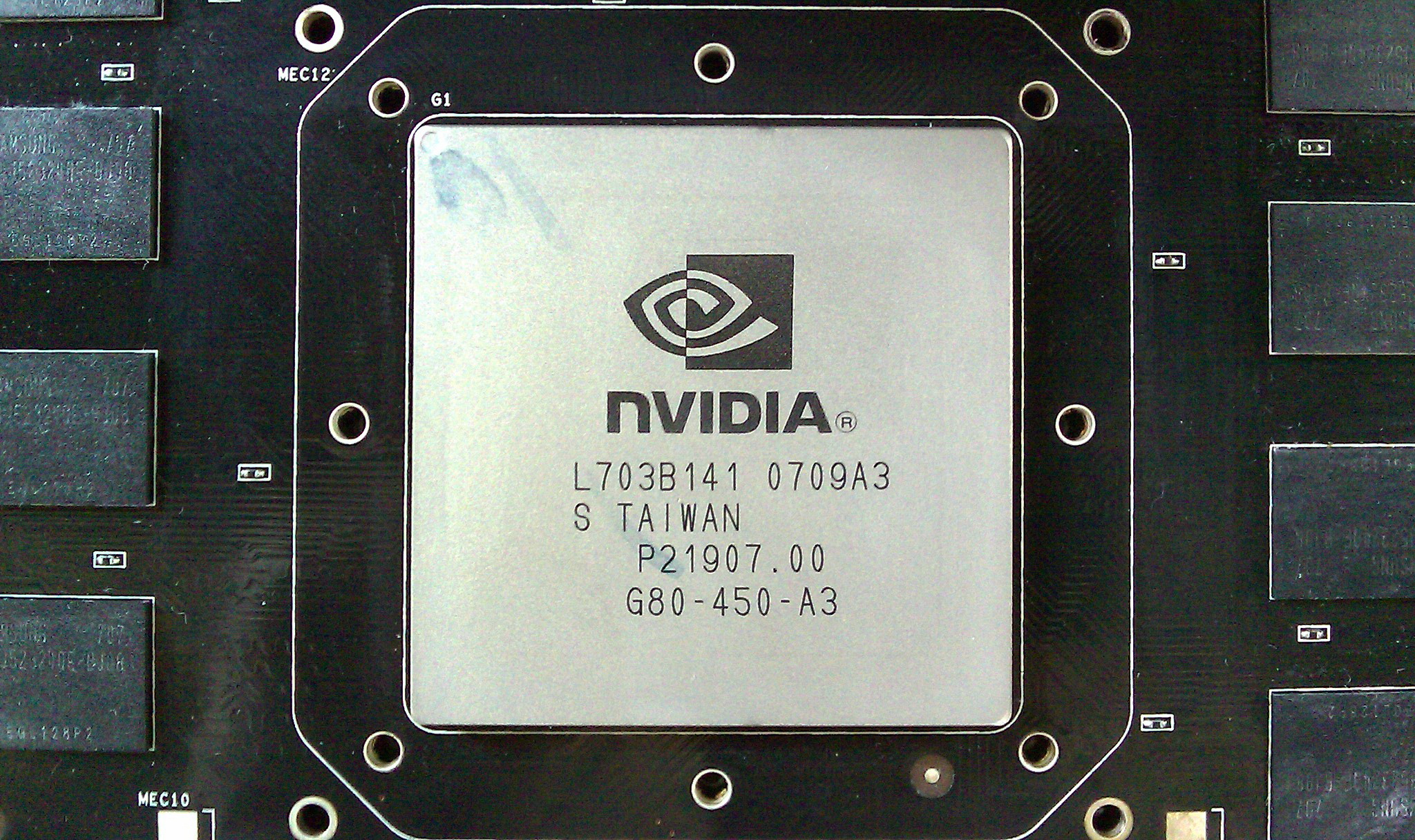 NVIDIA GeForce 8800 Ultra G80-450-A3 GPU